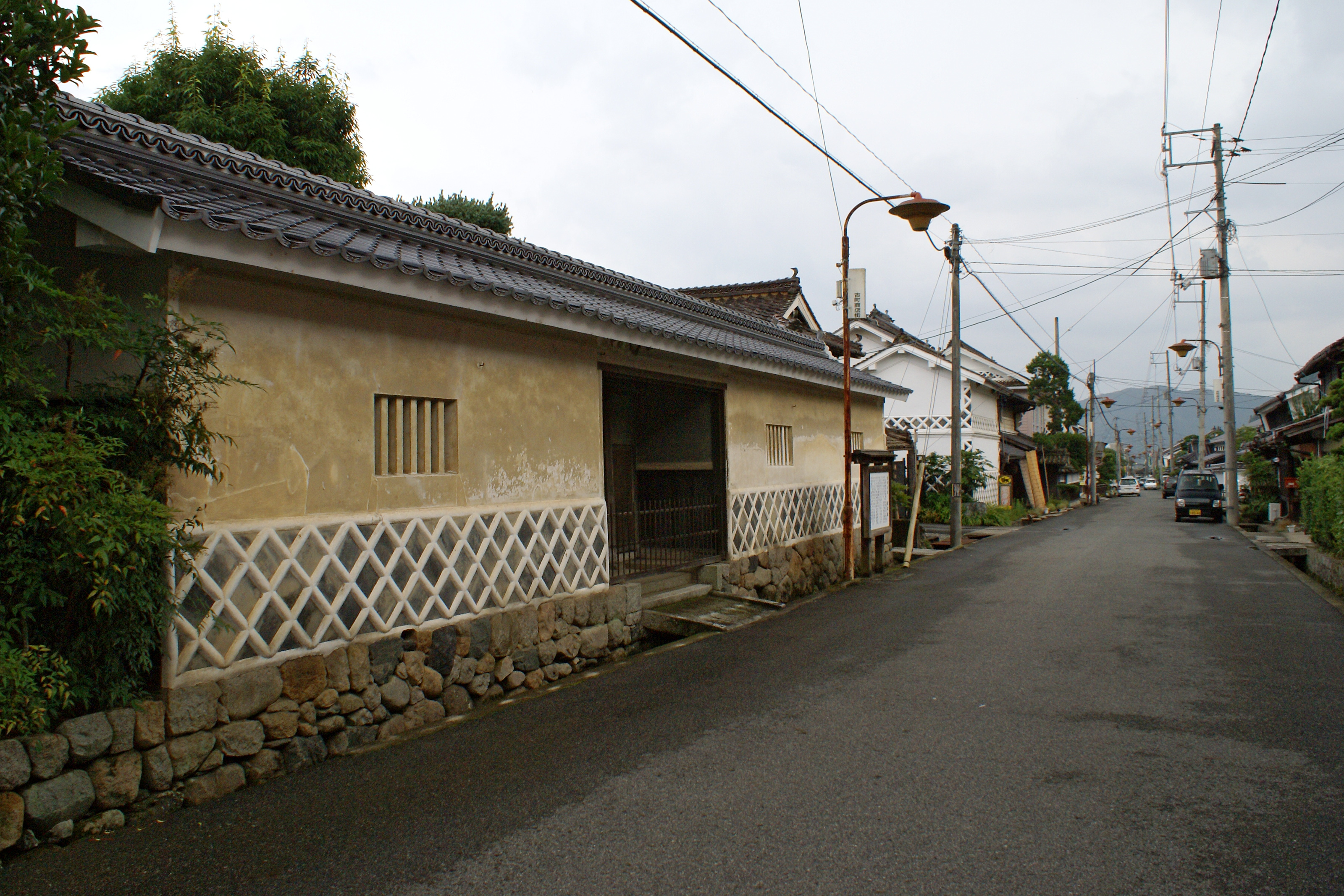 a street scene of Ohara-juku in Mimasaka, Okayama prefecture, Japan